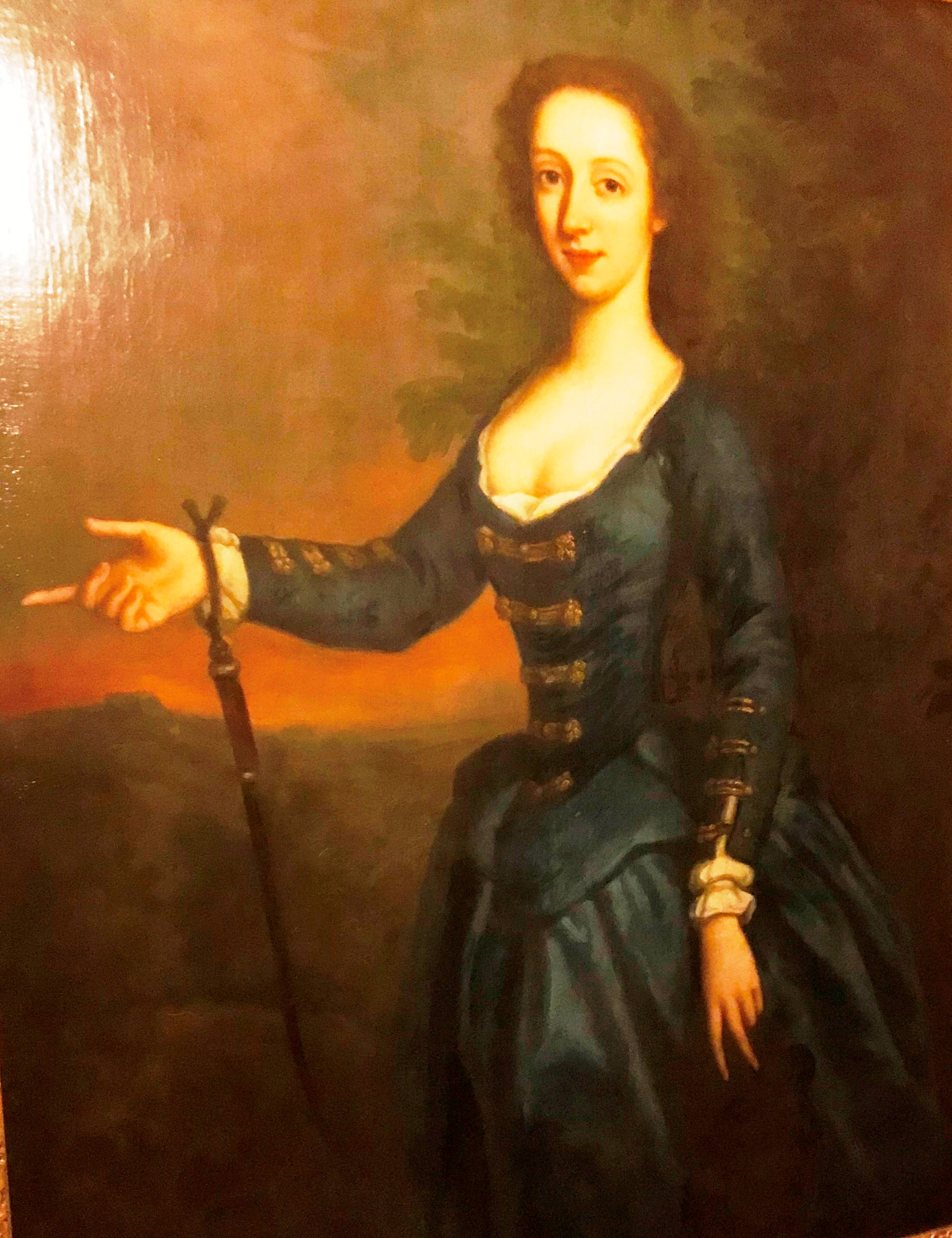 Mary Ellen Gordon, daughter of James Gordon of Ellon, married 23.7.1771 John Balfour, 5th of Balbirnie, mother of Lt.Gen. Robert Balfour and sister of Lt. Col. James Gordon